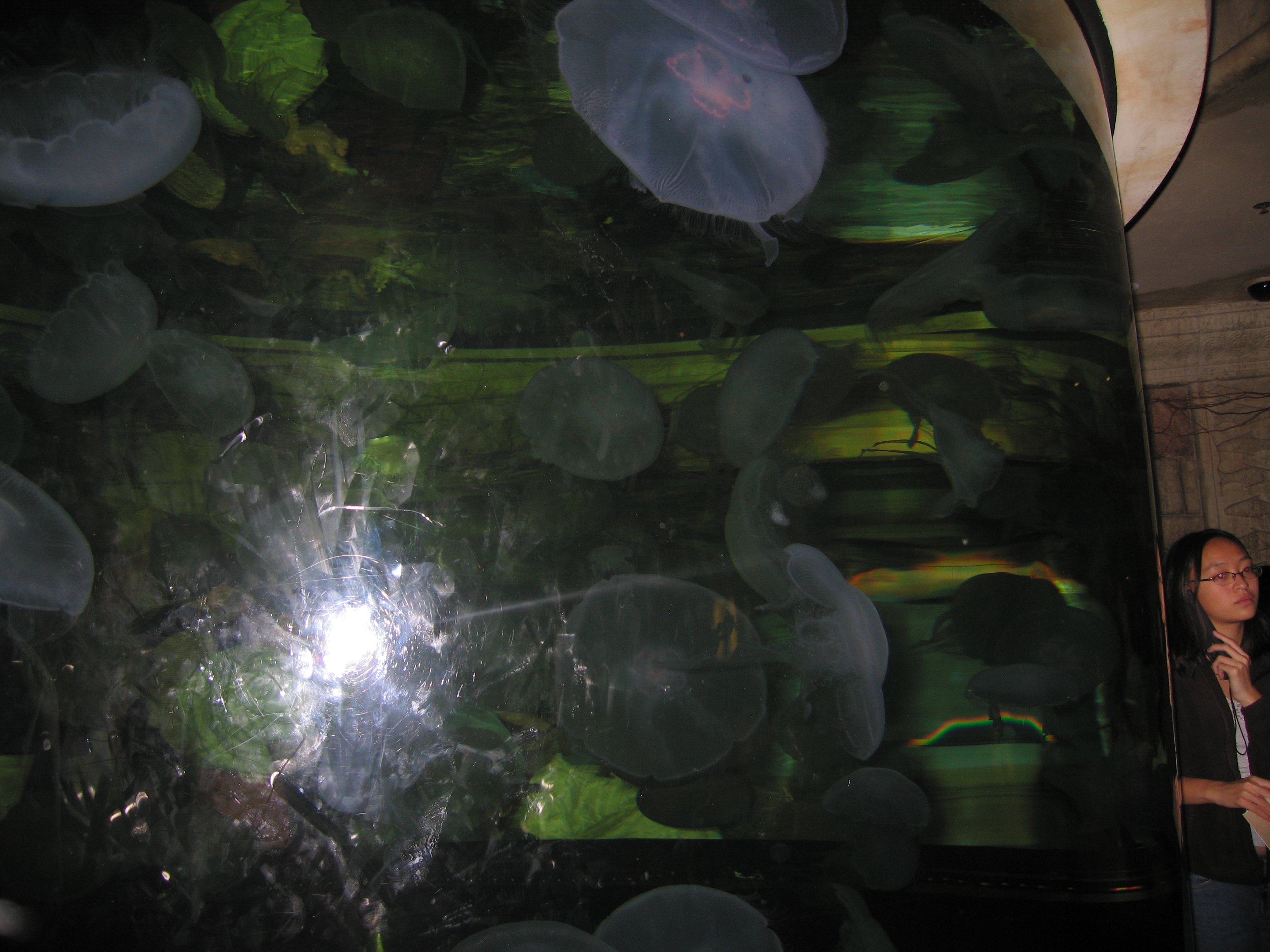 Jellyfish at Shark Reef, Mandalay Bay